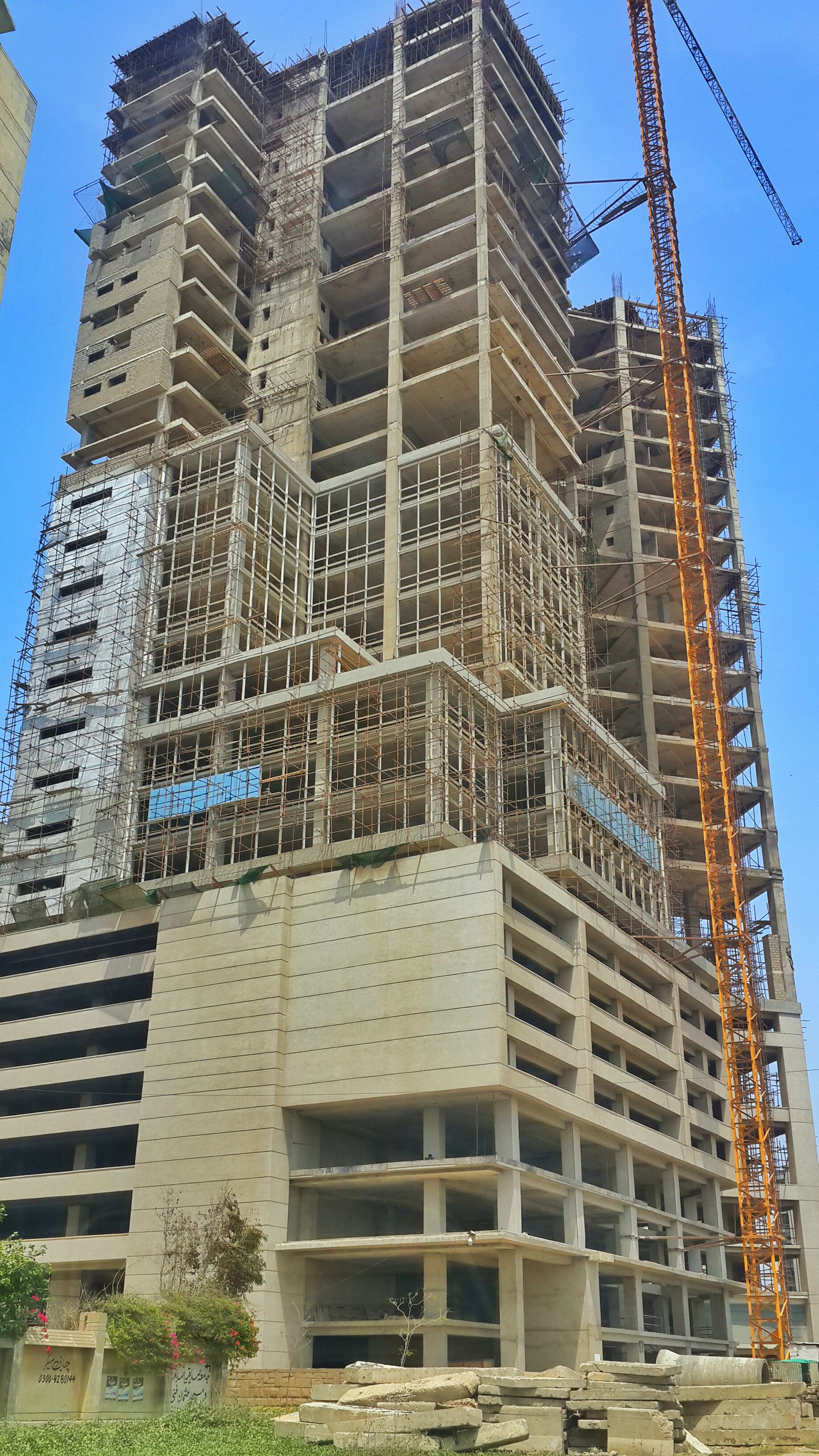 Bakht Tower, topped out, standing at 145 meters is now the tallest building in Karachi